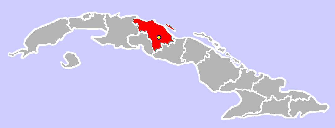 Location of Santa Clara, Cuba